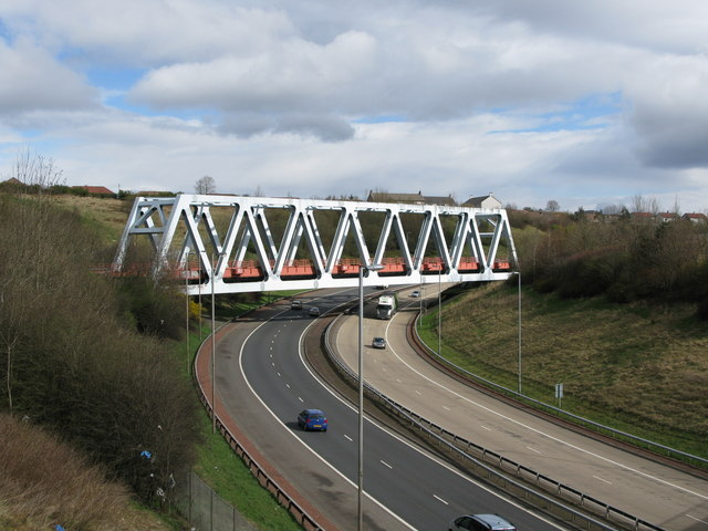 Railway Bridge over the M80 Motorway Viewed from the road bridge which carries Royston Road.